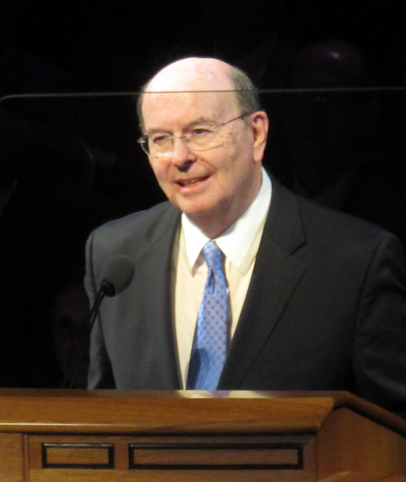 Quentin L. Cook speaking at a devotional at BYU.